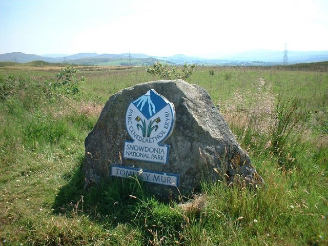 Tomen-y-mur Snowdonia National Park